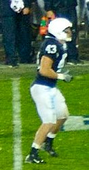 Cropped picture of Josh Hull